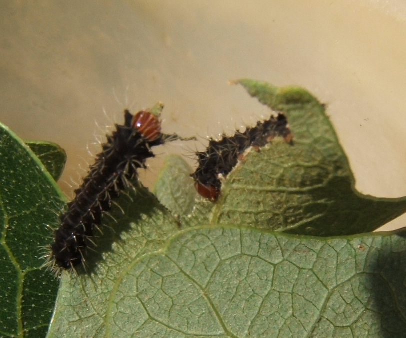 Antheraea pernyi 1st instar caterpillars feeding on Quercus (oak). Reared and picture by Shawn Hanrahan.